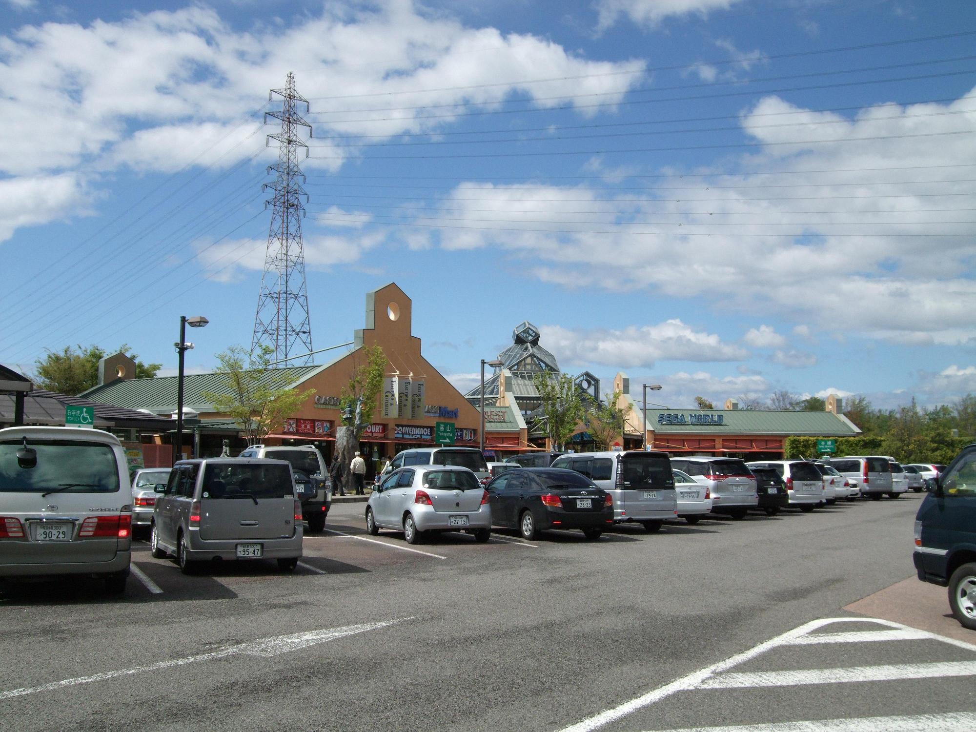 Kawashima Parking Area on the Tokai-Hokuriku Expressway outbound line